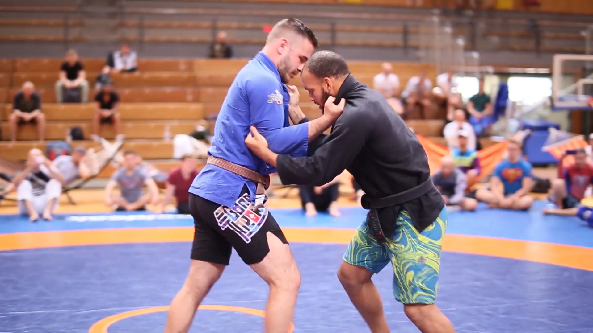 Two combatants competing in the Collar and Elbow style of wrestling in Heidelberg, Germany